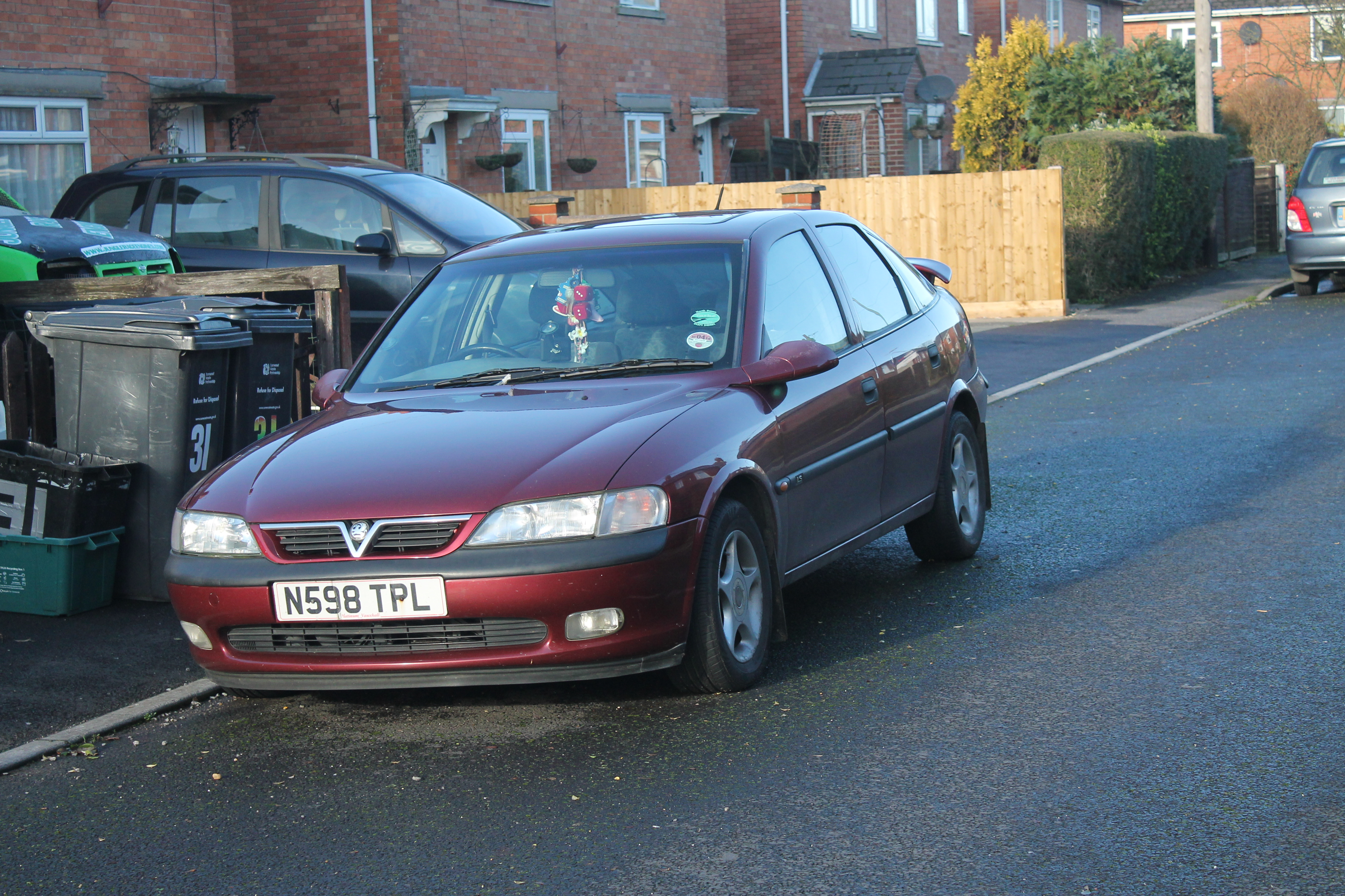 I'm on the lookout now for early Vectras, particularly the N regs like this one. Looks in good condition- a little sported up with the alloys and spoiler! Registration number: N598 TPL ✔ Taxed Expires: 01 November 2014 ✔ MOT Expires: 22 April 2015 Vehicle make :VAUXHALL Date of first registration :10 June 1996 Year of manufacture :1996 Cylinder capacity (cc) :1686cc CO₂Emissions :Not available Fuel type :DIESEL Export marker :No Vehicle status :Taxed and due Vehicle colour :RED